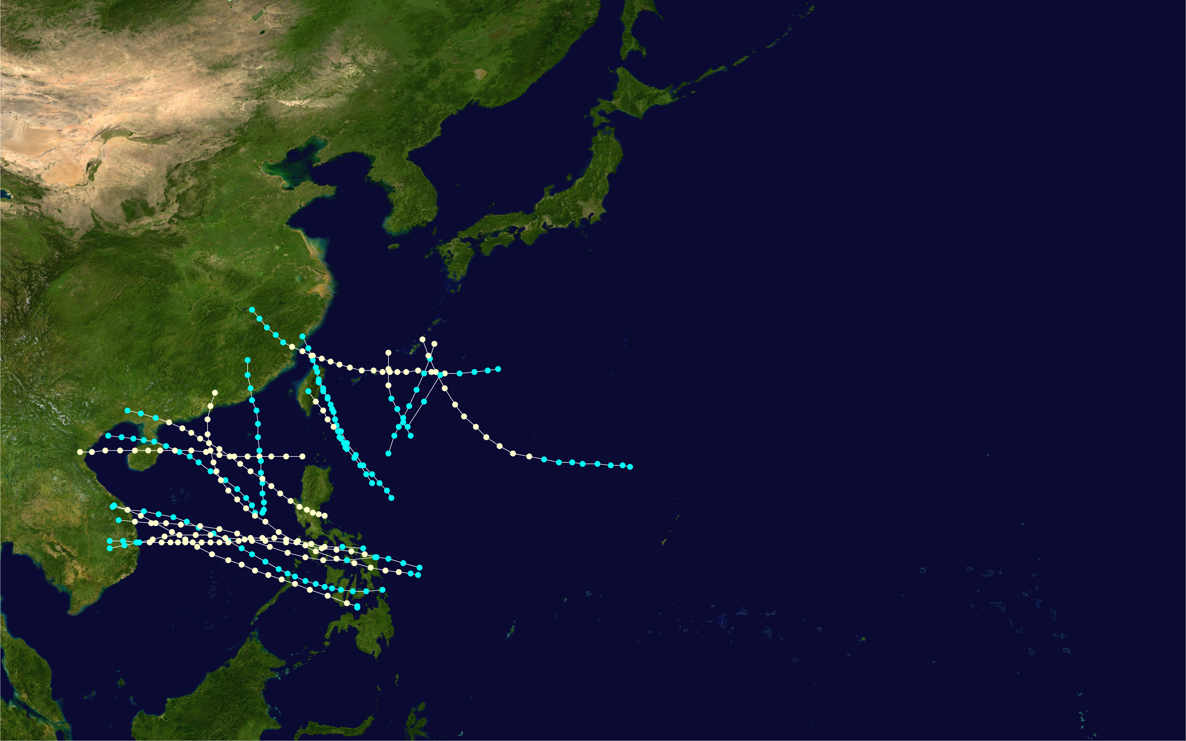 This map shows the tracks of all tropical cyclones in the 1900 Pacific typhoon season. The points show the location of each storm at 6-hour intervals. The colour represents the storm's maximum sustained wind speeds as classified in the Saffir-Simpson Hurricane Scale (see below), and the shape of the data points represent the type of the storm. Saffir–Simpson scale Tropical depression≤38 mph≤62 km/h Category 3111–129 mph178–208 km/h Tropical storm39–73 mph63–118 km/h Category 4130–156 mph209–251 km/h Category 174–95 mph119–153 km/h Category 5≥157 mph≥252 km/h Category 296–110 mph154–177 km/h Unknown Storm type Tropical cyclone Subtropical cyclone Extratropical cyclone / Remnant low / Tropical disturbance